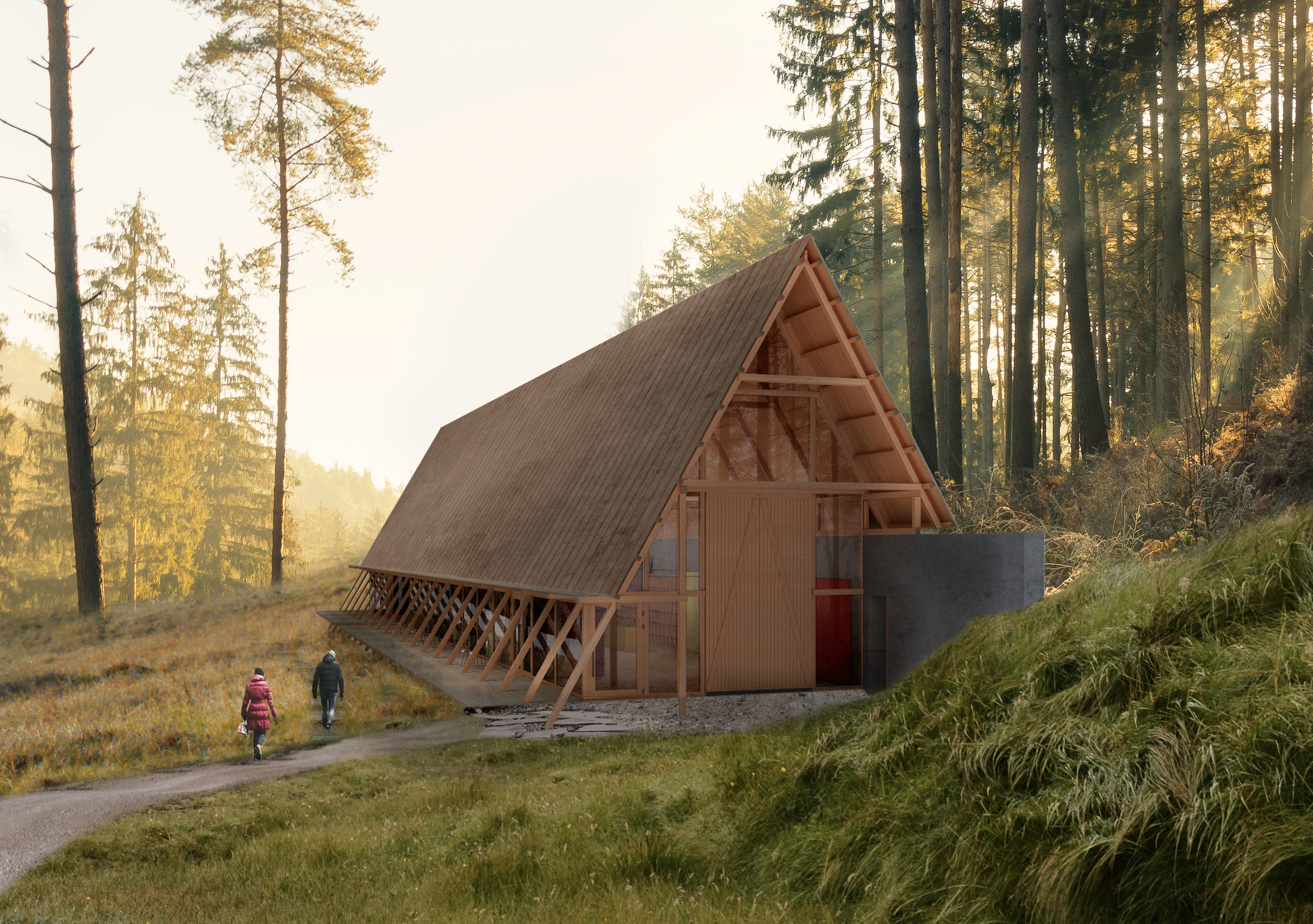 Christoffer Harlang Architects in collaboration with Fogh & Følner 2019